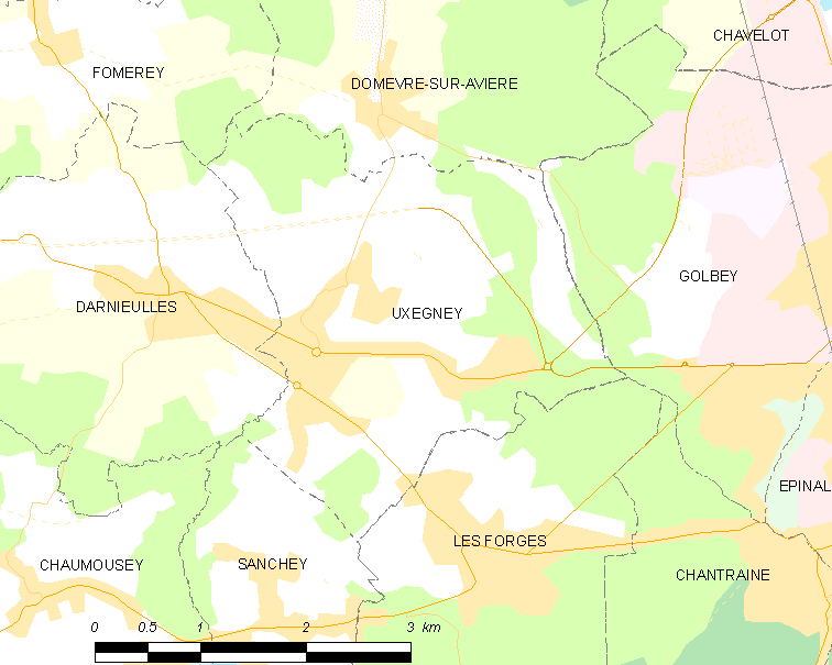 Map of French municipality Uxegney